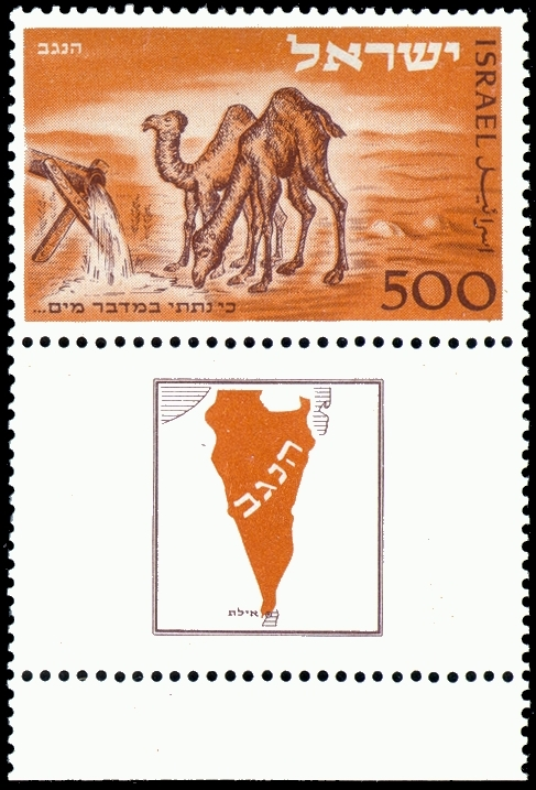 Negev stamp - 500 mil, First definitive series. Inscription: "Because I give water in the wilderness...". Inscription on tab: "The Negev", "Eilat".